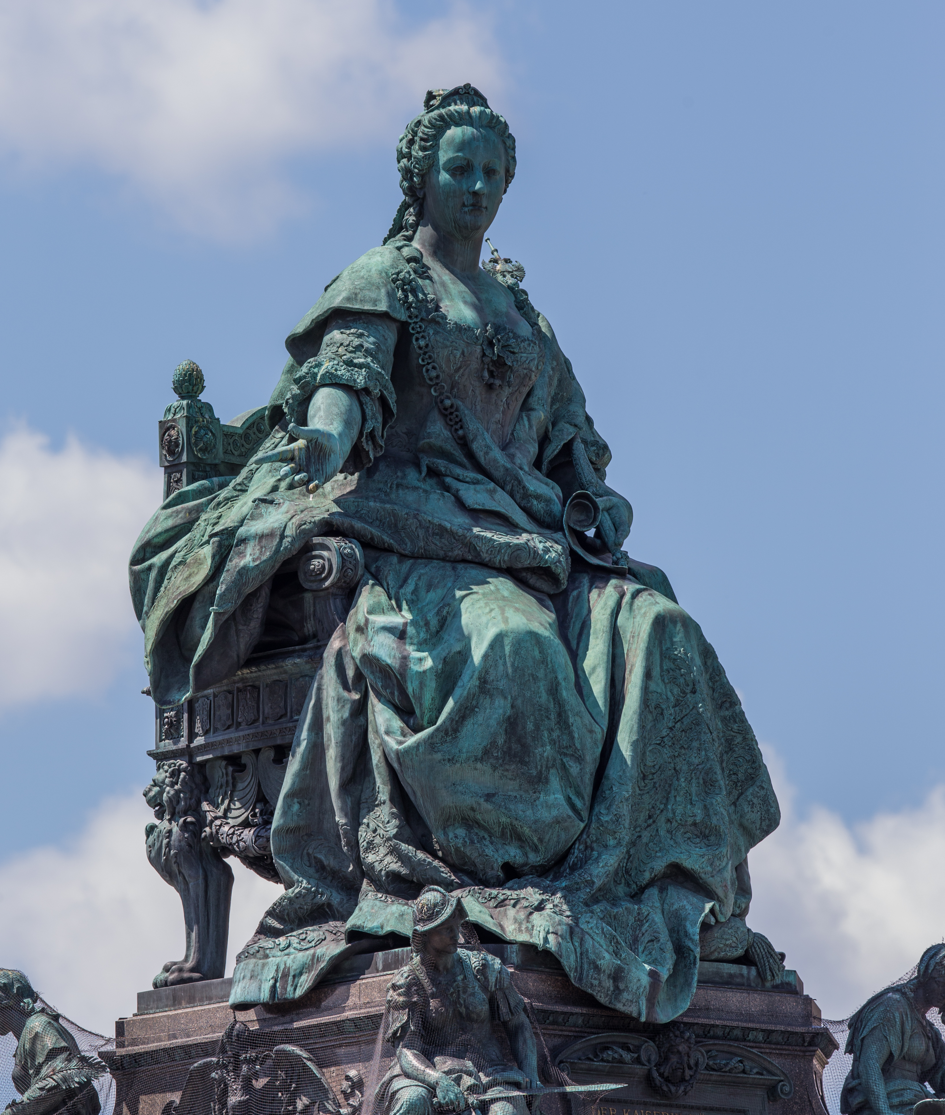 Maria-Theresia-square, Maria-Theresia monument, artist: Kaspar von Zumbusch (errected 1874-1888), main figure